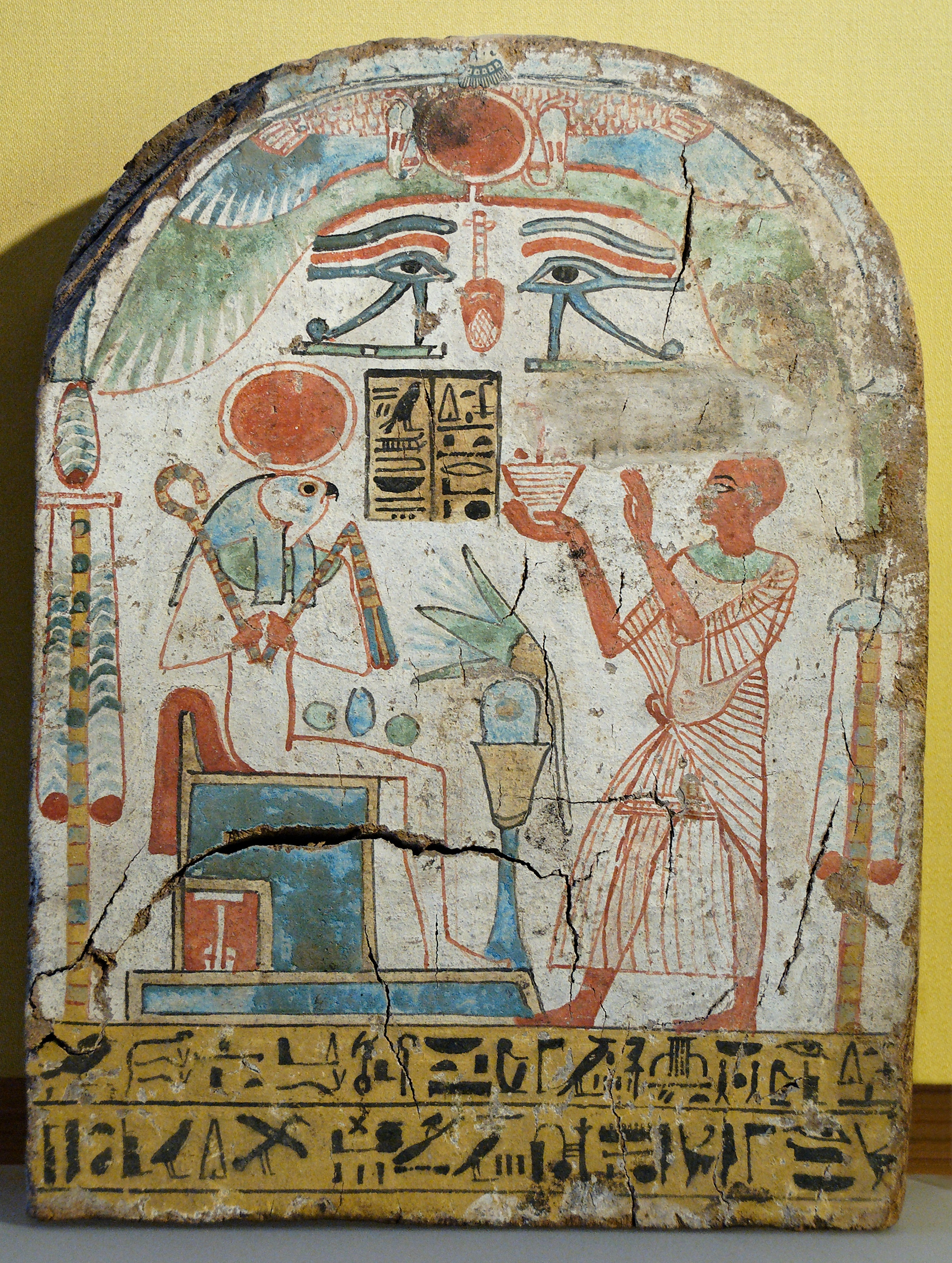 Upper tier: the priest Padiuiset burning incense in honour of Ra-Horakhty-Atum; Lower tier: offering formula to Osiris. Coated and painted wood, ca. 900 BC (22nd Dynasty).